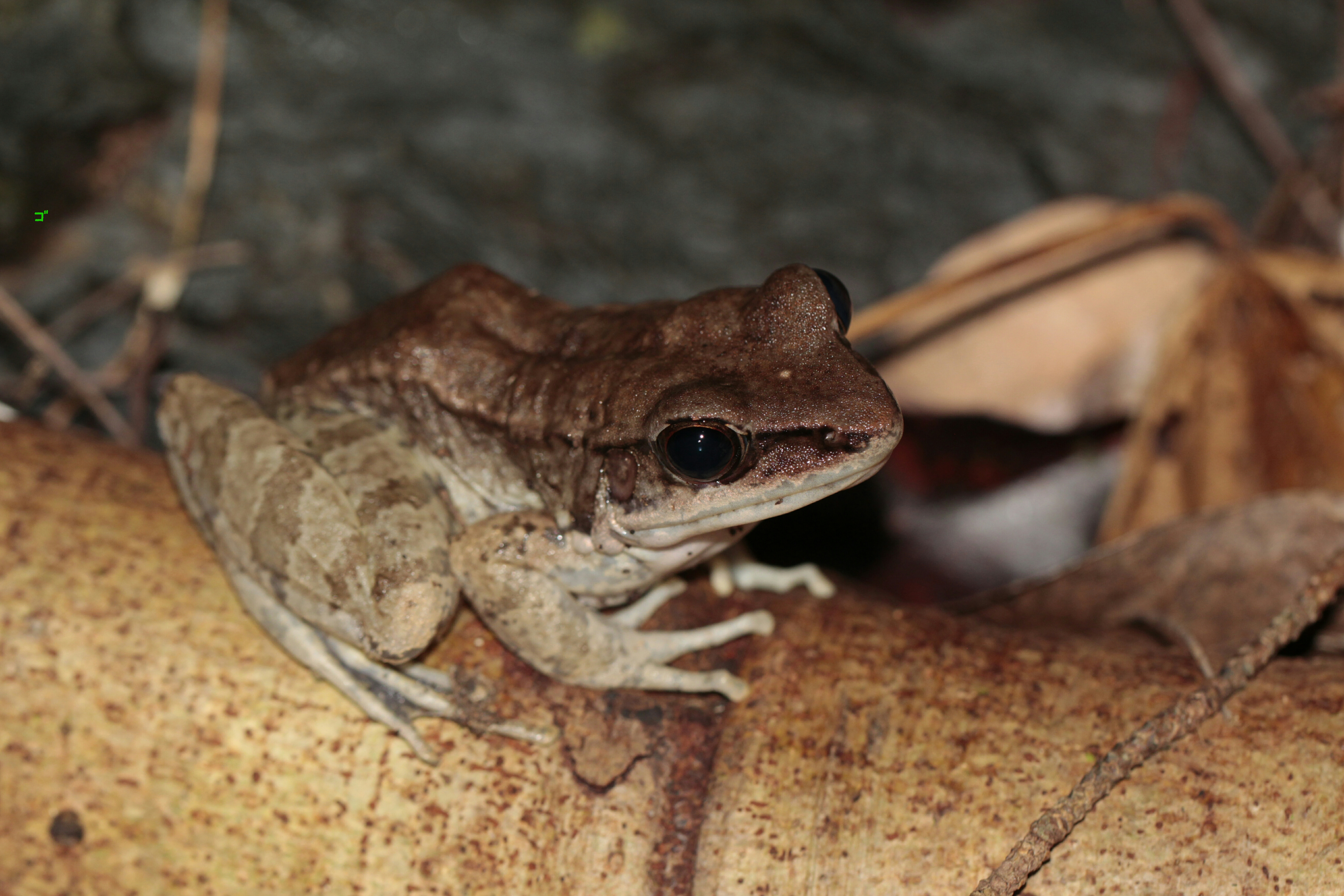 frogs